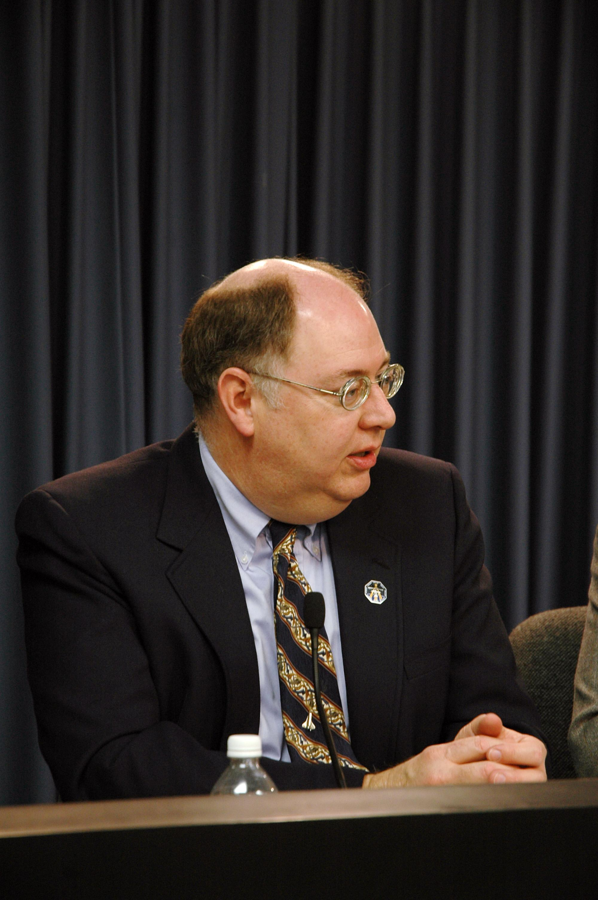 Space Shuttle Program Manager Wayne Hale answers a question from a reporter during a press conference.